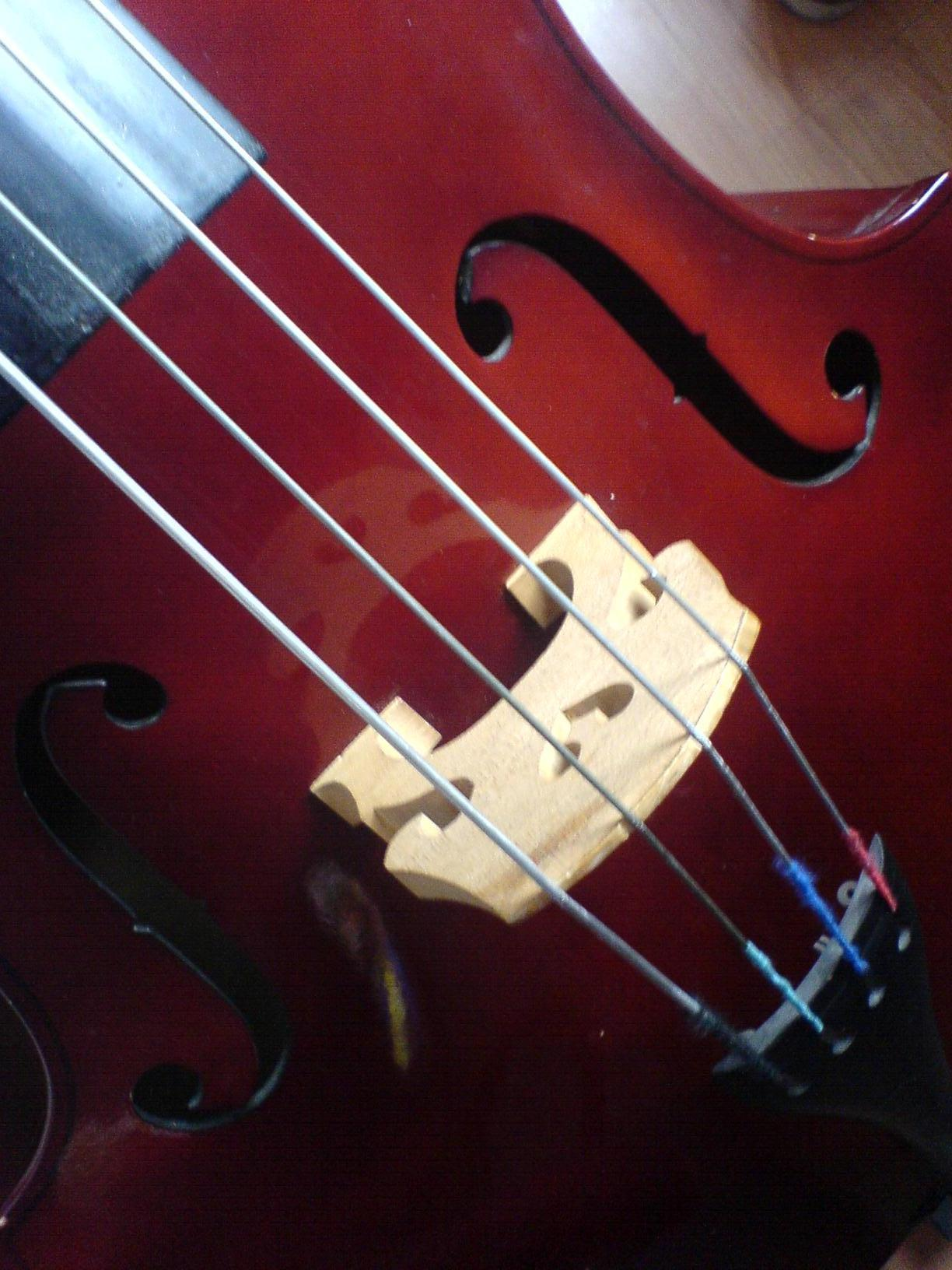 Double bass (Detail of the Bridge and Strings)